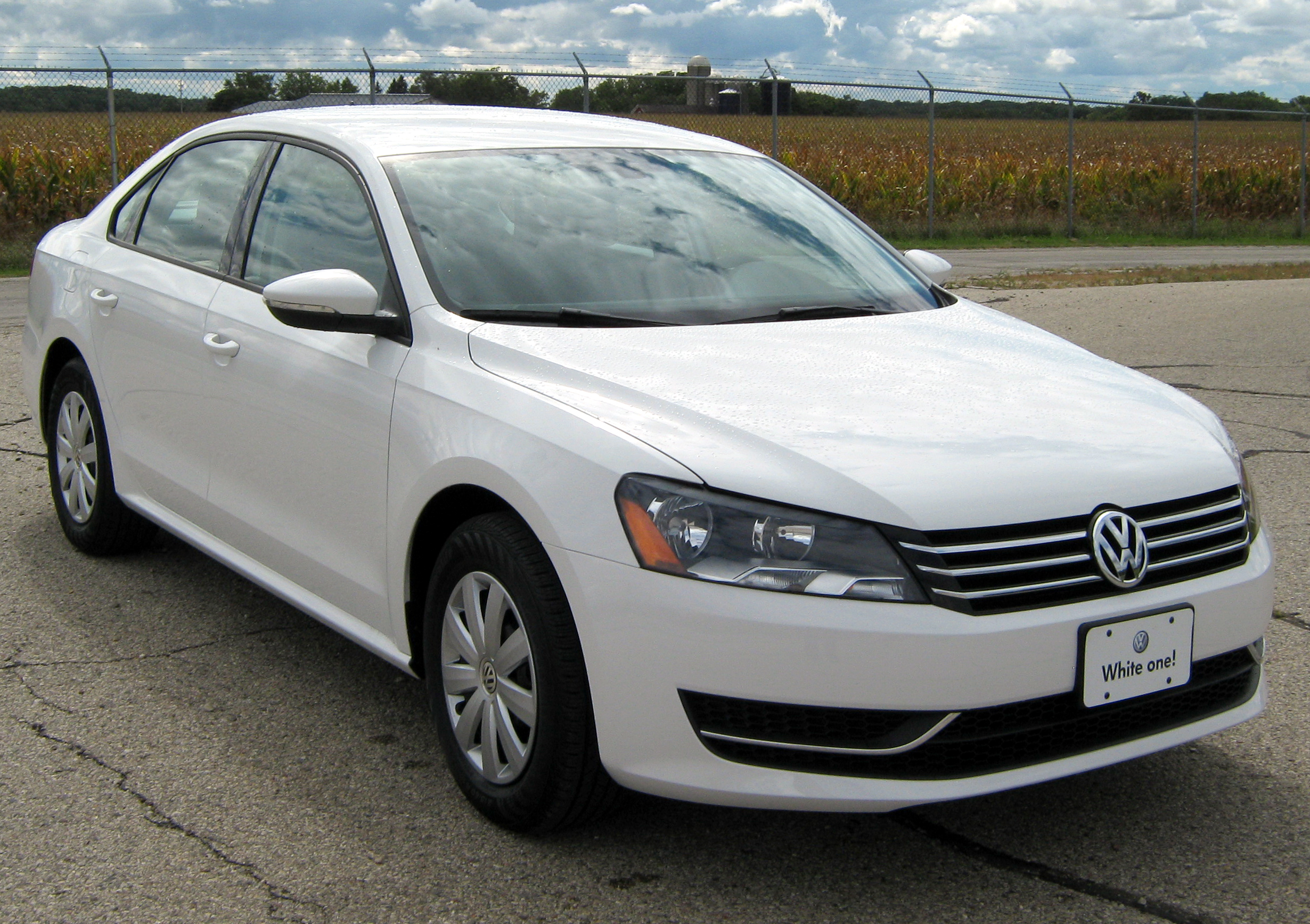 2012 Volkswagen Passat photographed in USA.